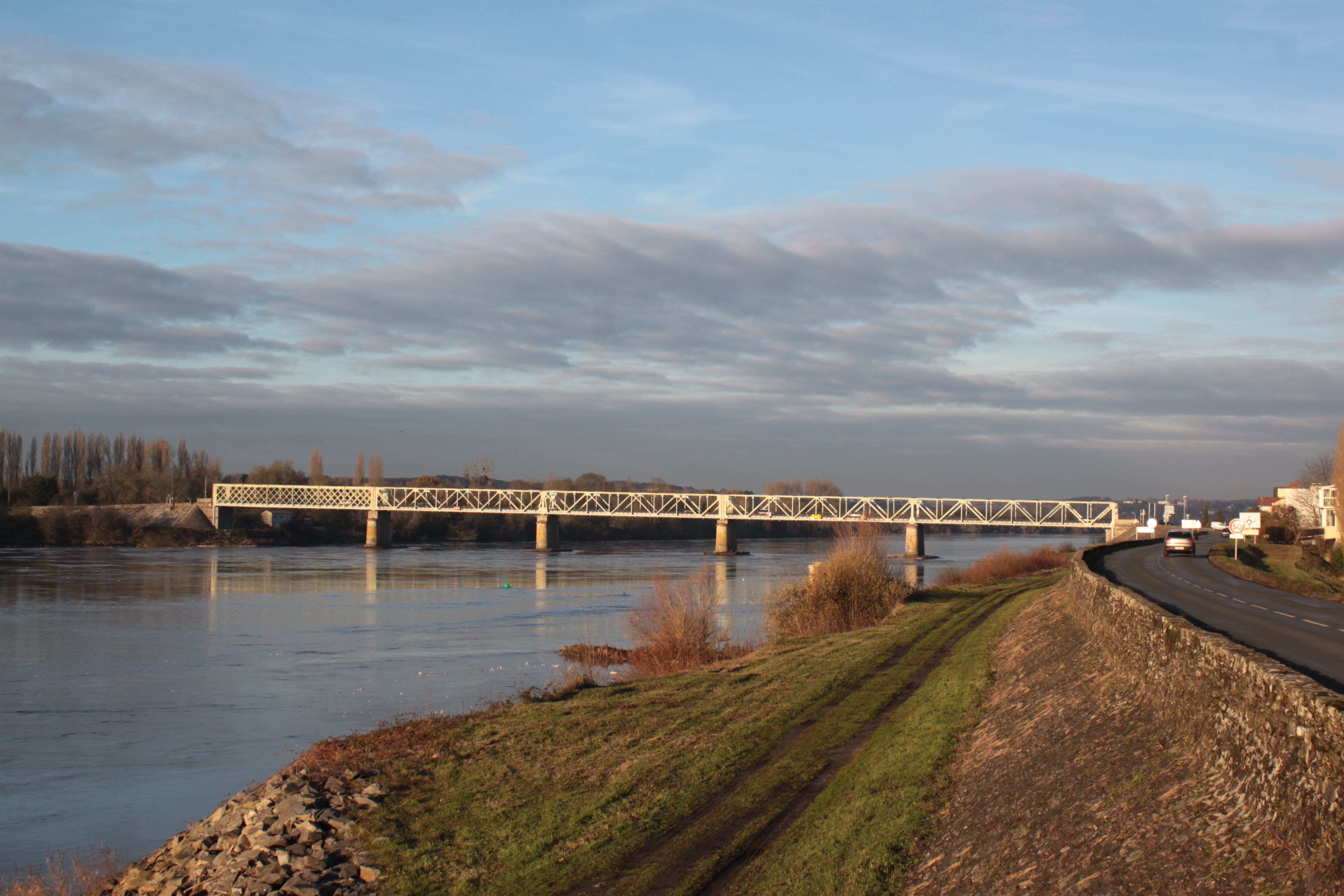 Loire river, Divatte levee and Thouaré-sur-Loire bridge from slipway #83, Fr-44-Saint-Julien-de-Concelles.